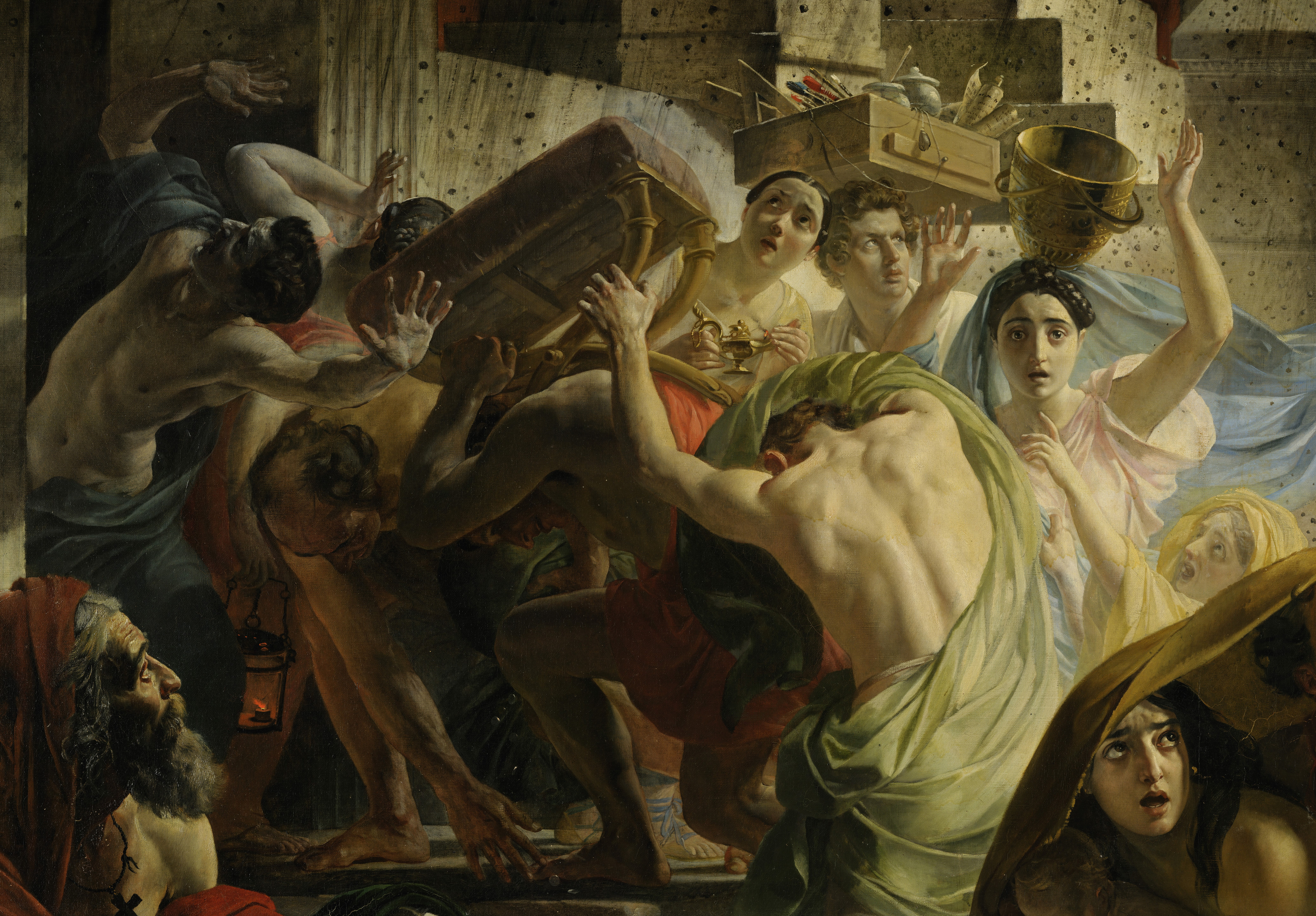 Detail of "The last day of Pompeii" (by Karl Bryullov, 1833, Russian Museum)